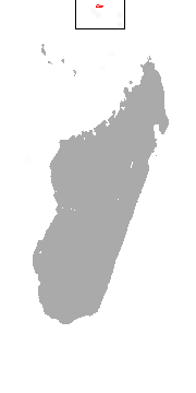 Aldabra Flying Fox (Pteropus aldabrensis) range